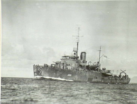 Australian Bathurst class corvette HMAS Geelong traveling at full speed while escorting a convoy off New Guinea in September 1944.